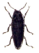 Eucnemis capucina, from Calwer's Käferbuch, Table 24, Picture 23. Taxonomy was updated to 2008, using mostly the sites Fauna Europaea and BioLib. Please contact Sarefo if the determination is wrong!